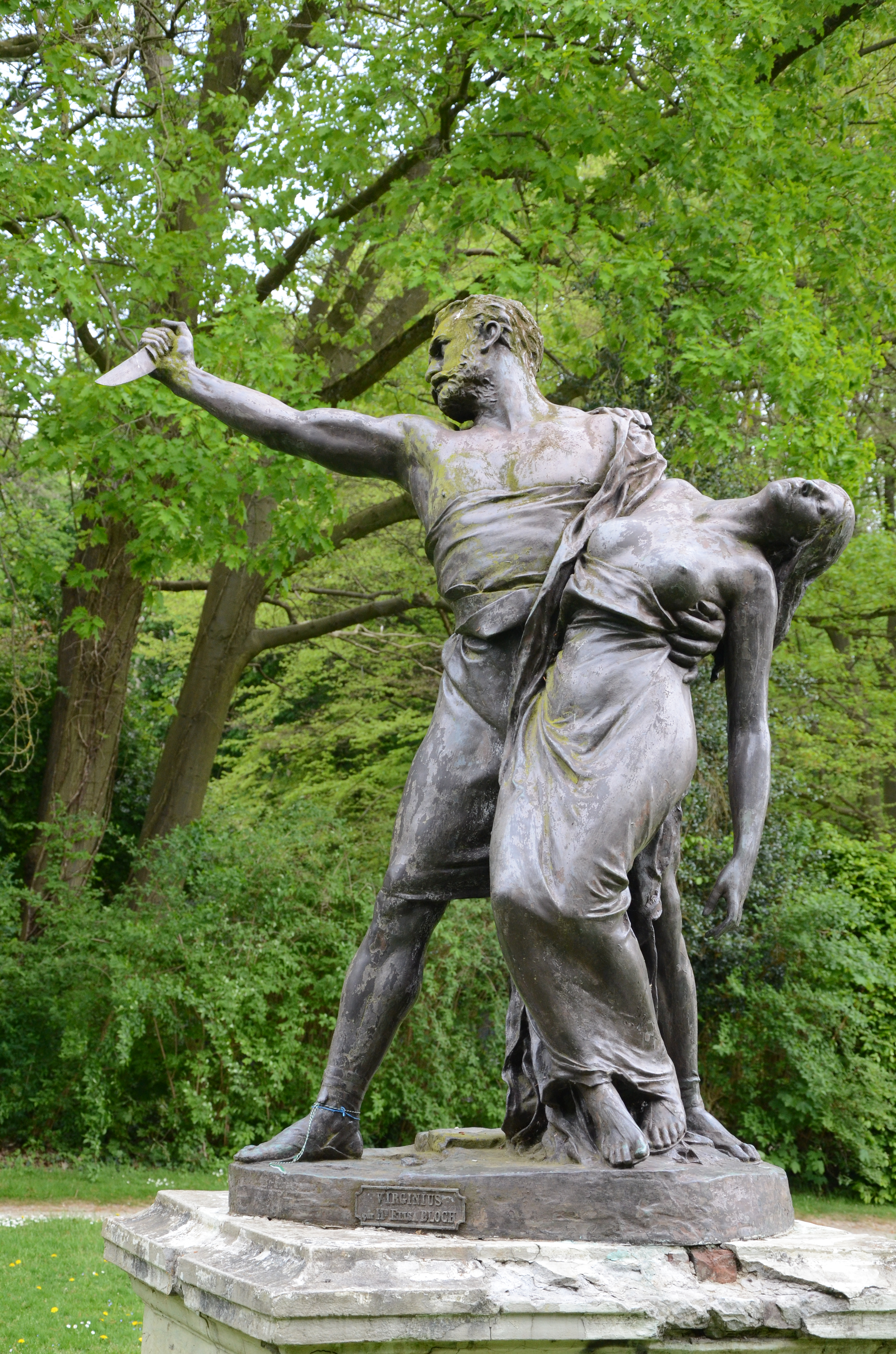 Virginius by Elisa Bloch in Tervuren